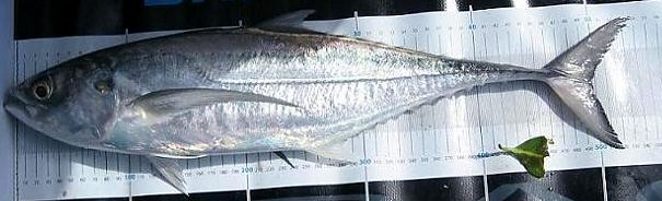 Torpedo scad cought off Port Douglas